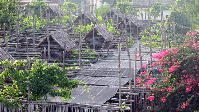 Pergola for lemon trees in Sorrento - Italy.